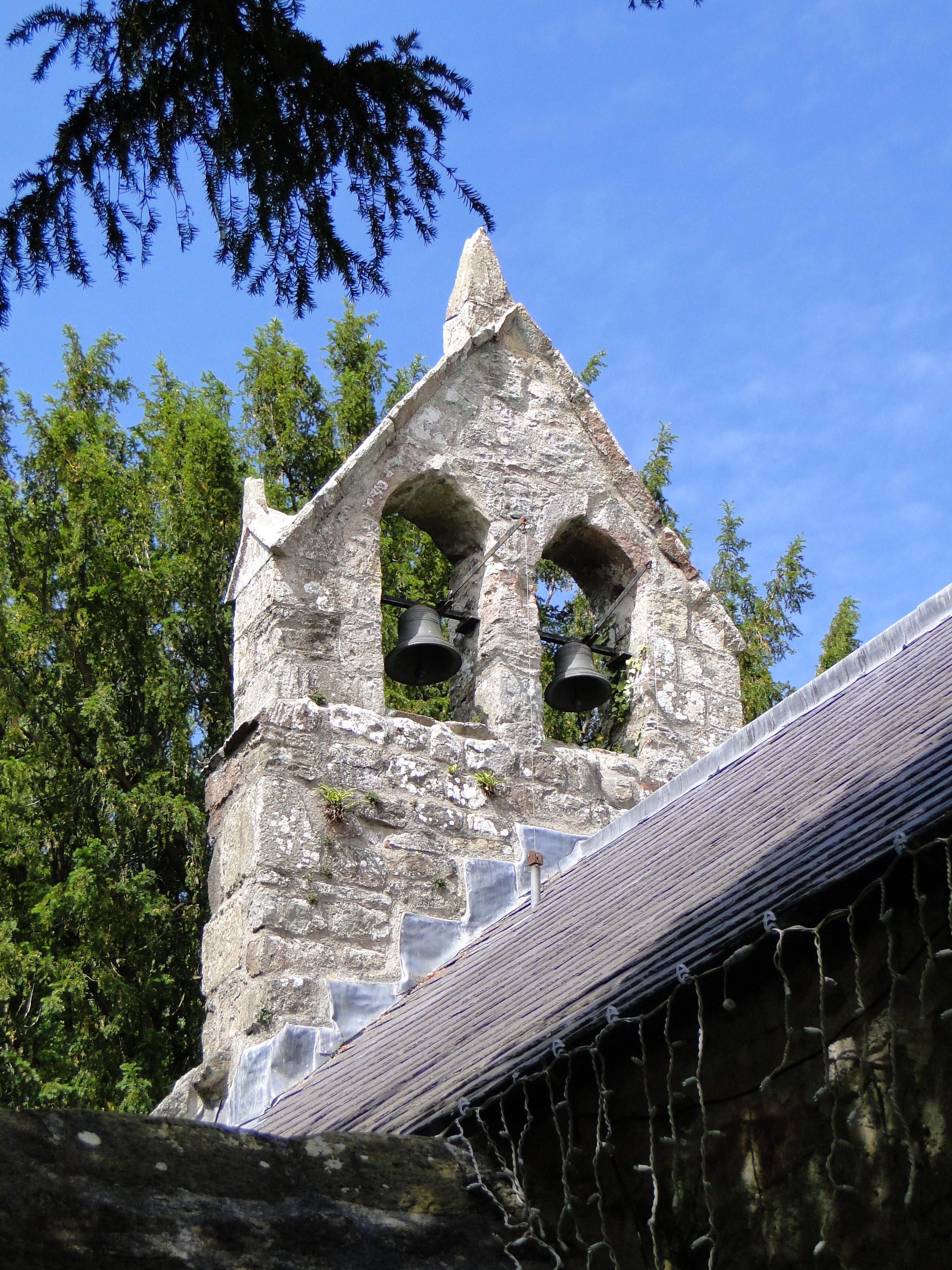 Bellcote of St Nidan's old church, Llanidan, Anglesey, Wales